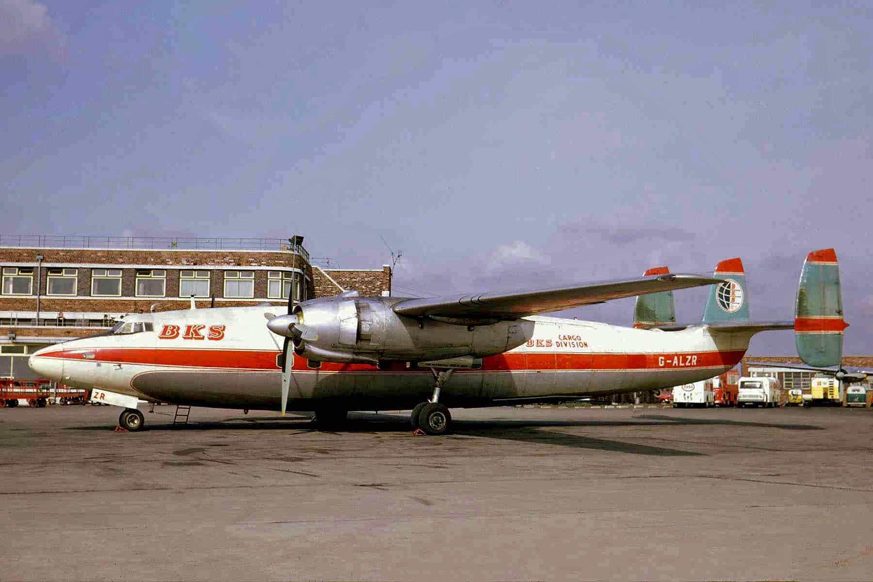 G-ALZR in it's final c/scheme, just 16 months before it was written off at Gatwick (LGW)